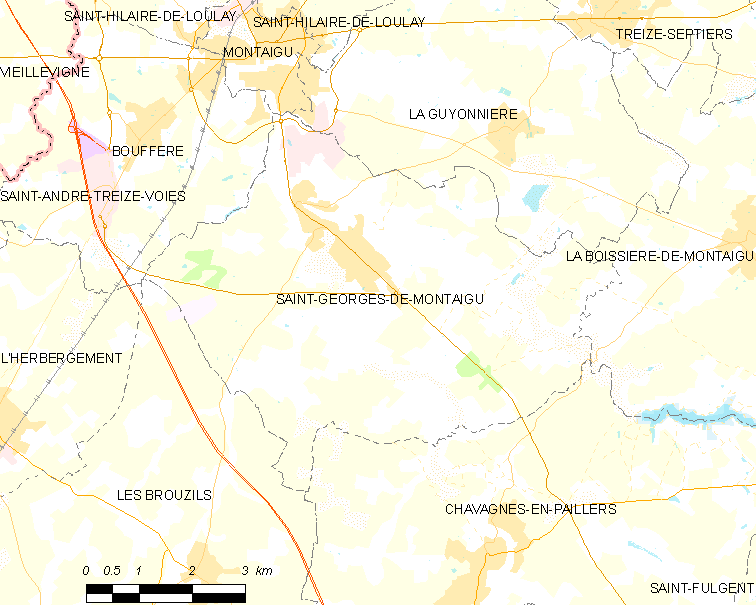 Map of French municipality Saint-Georges-de-Montaigu